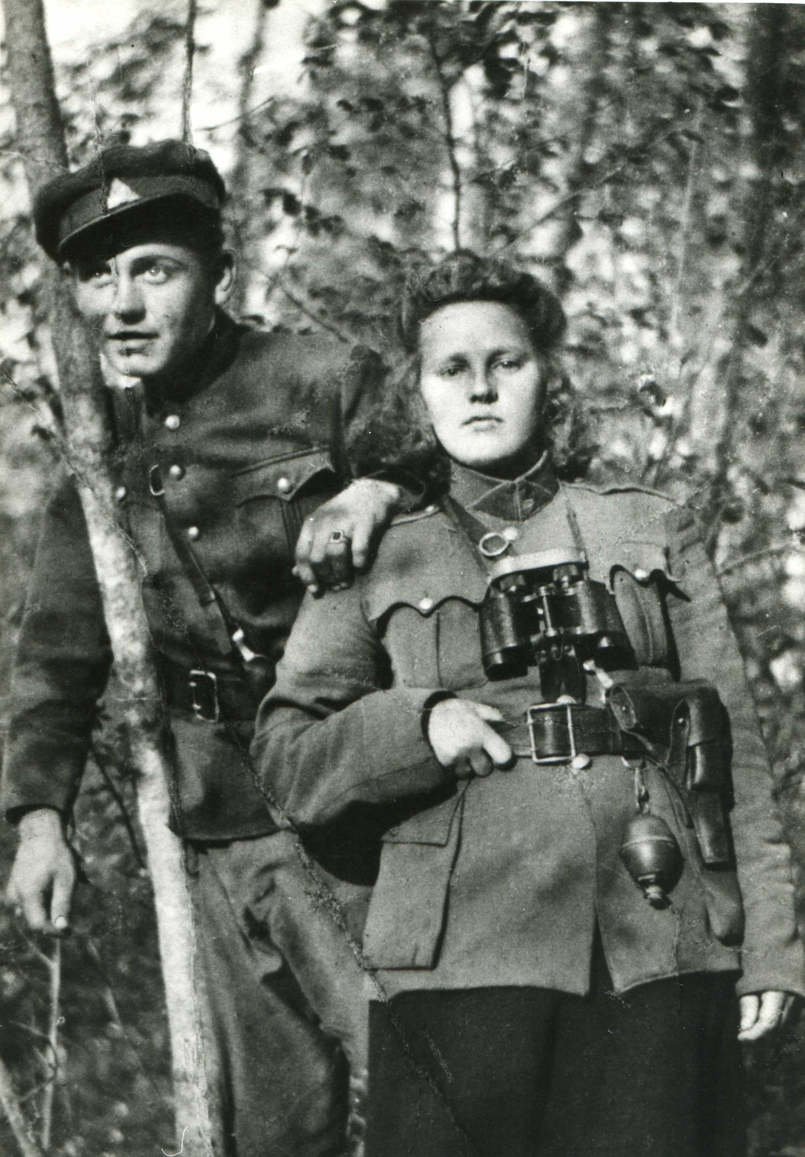 Albina Norkutė with her brother Albertas Norkus